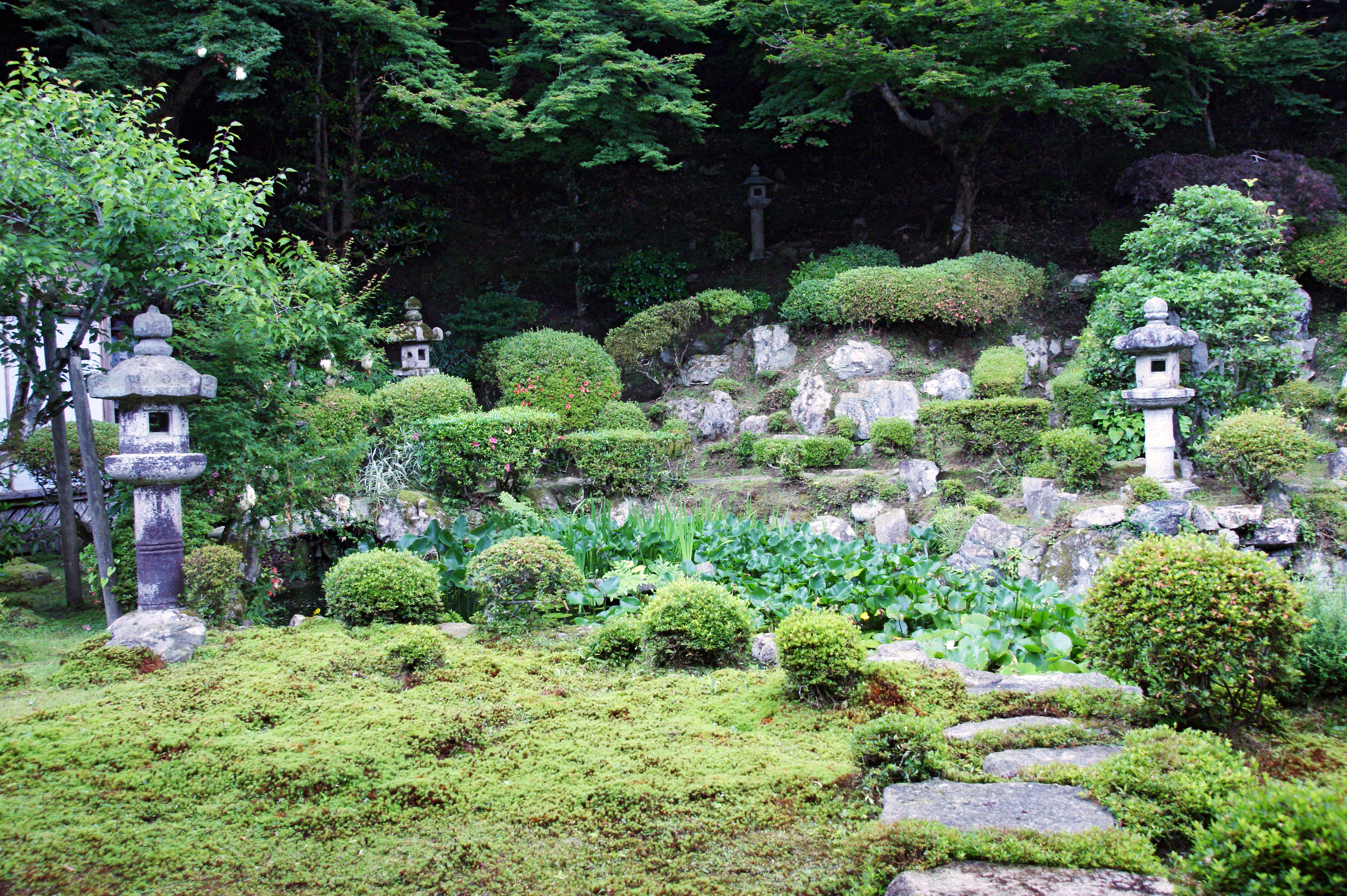 Saikyoji in Sakamoto, Otsu, Shiga prefecture, Japan